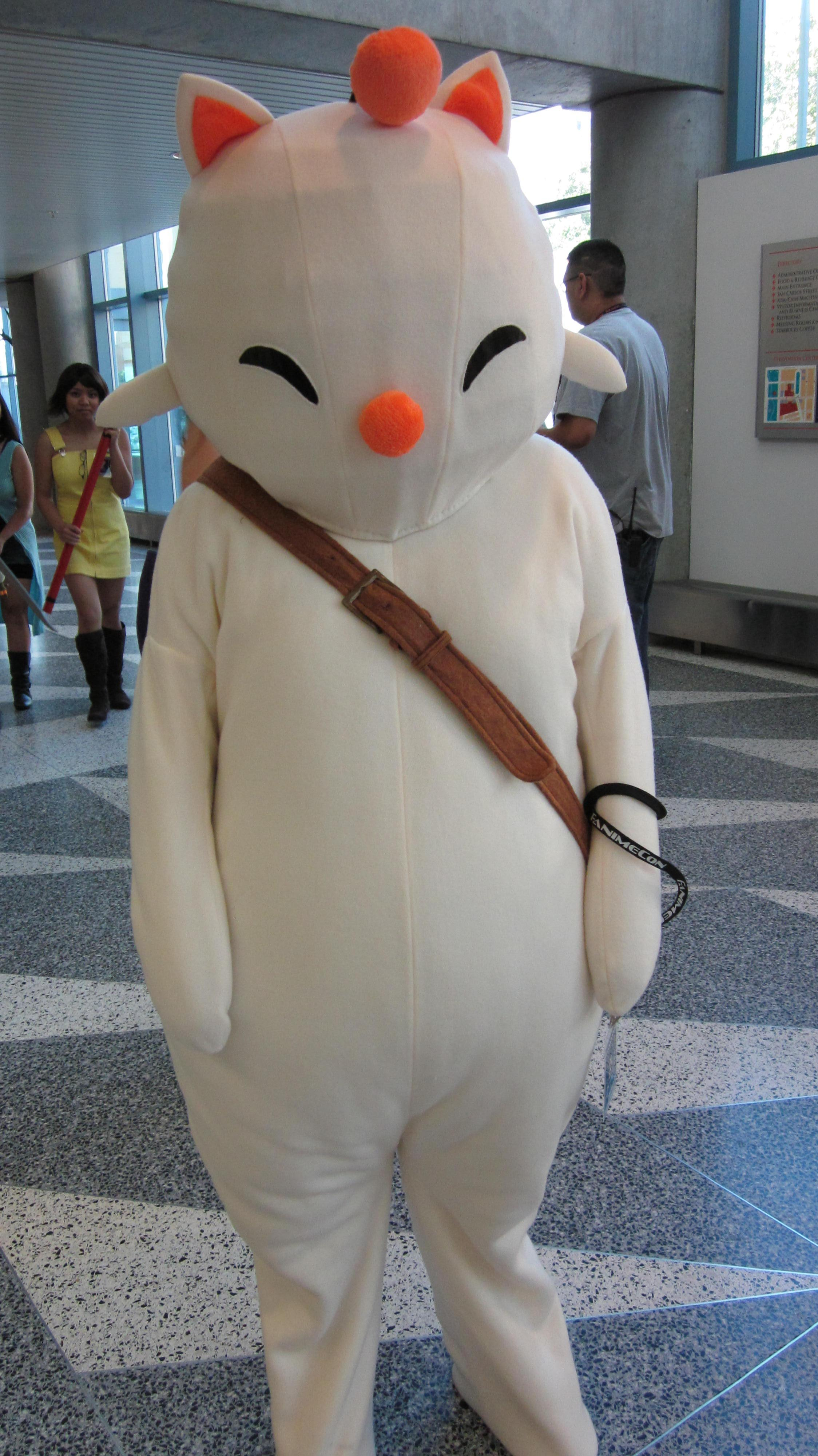 A cosplayer portraying a Moogle from the Final Fantasy series at FanimeCon 2010 in San Jose, California.